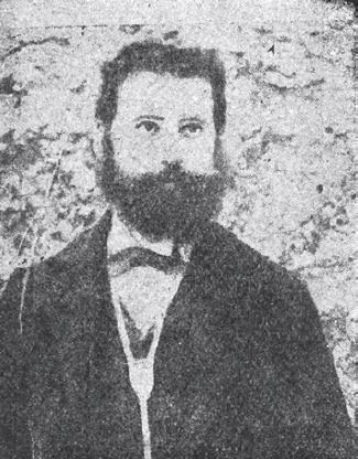 Portrait of IMARO member Stefan Nastev